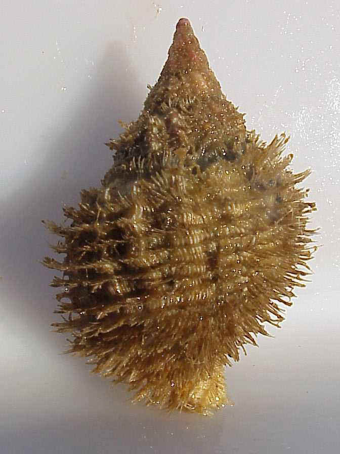 abapertural view of Fusitriton oregonensis